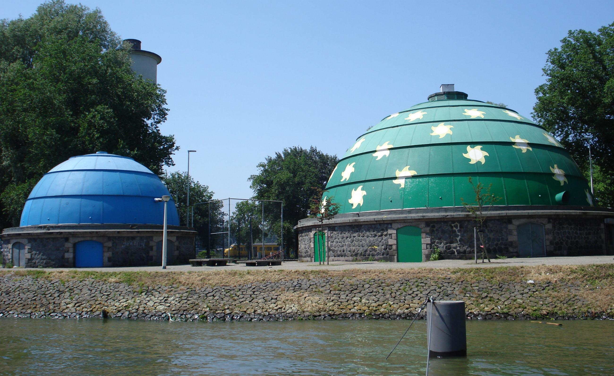 Rotterdam, Persoonshaven (Mallegat). Gashouders, Gemeentemonument.